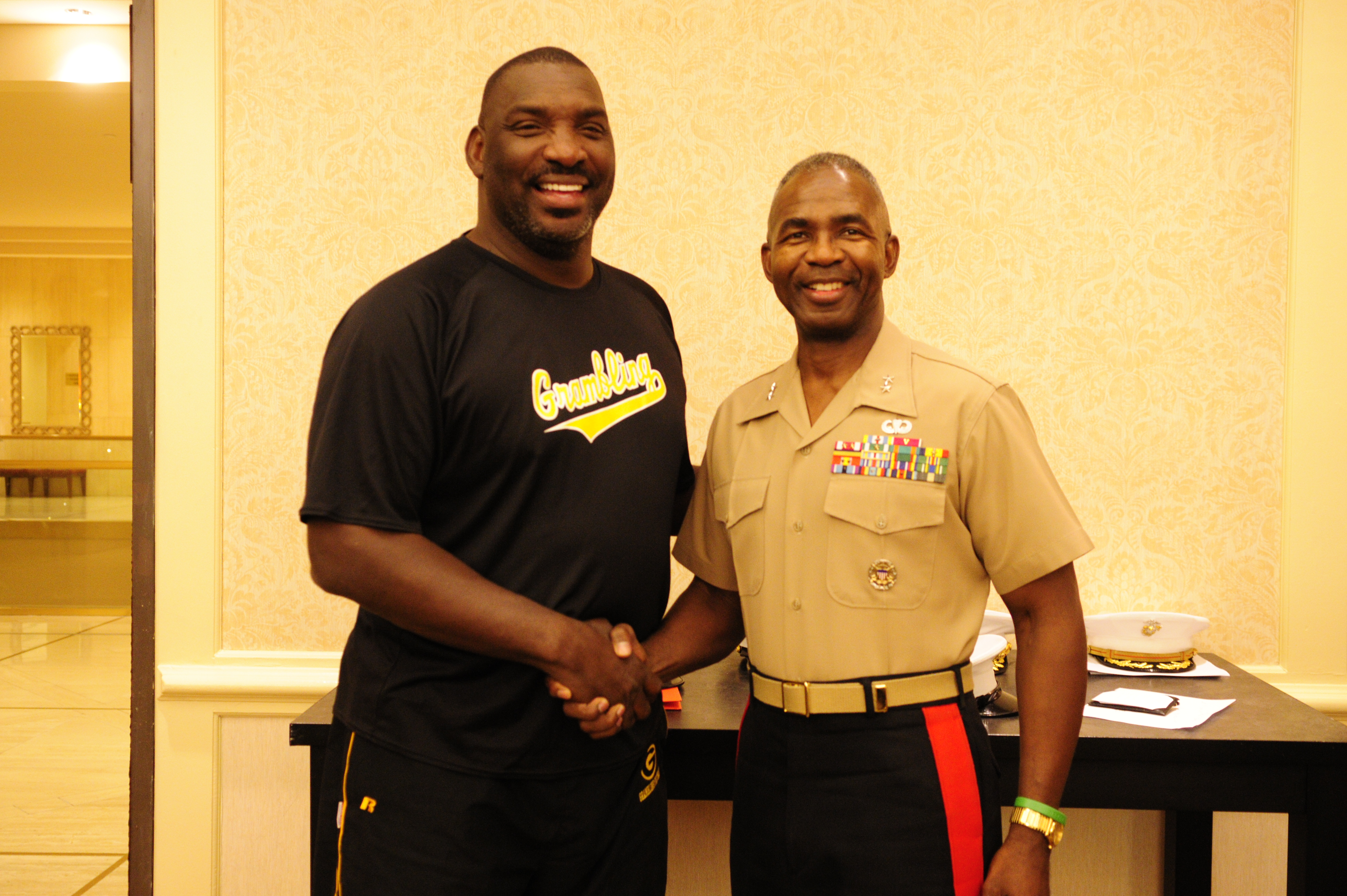 Maj. Gen. Ronald L. Bailey (right), commanding general of the 1st Marine Division, shakes hands with retired National Football League quarterback Doug Williams at the Grambling State University breakfast before the Texas State Fair Classic in Dallas. The general and other Marines attended the game to provide African-American students with more information on a viable career path in the Corps, during the matchup between two historically black universities, Prairie View A&M University and Grambling State University. Williams was the first black quarterback to play, win and be named Most Valuable Player in in a Super Bowl game. Williams is now head football coach for Grambling.